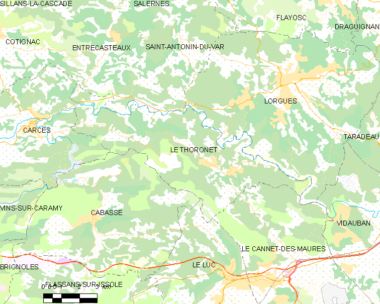 Map of French municipality Le Thoronet